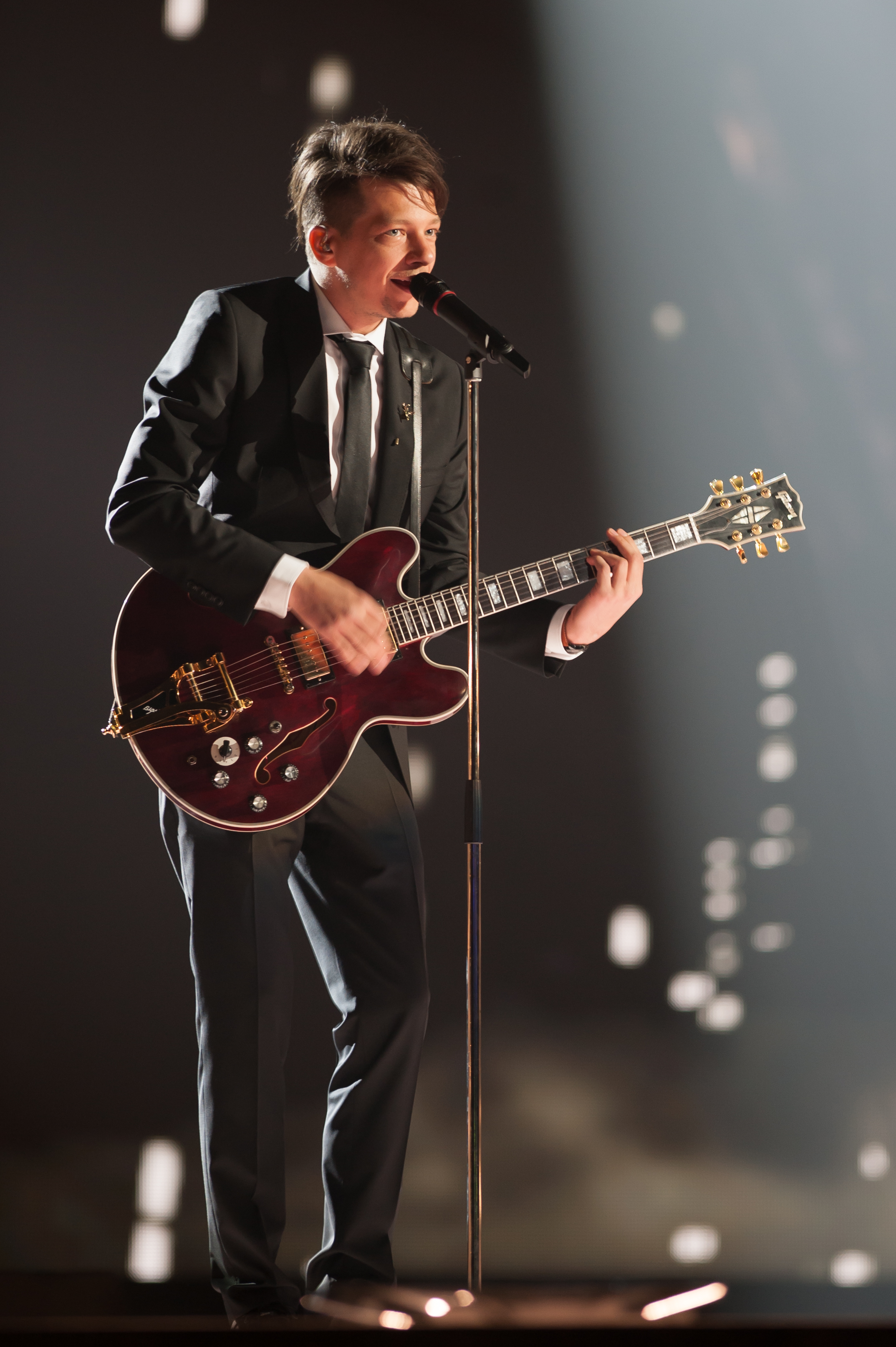 Eurovision Song Contest Vienna 2015: Elina Born & Stig Rästa